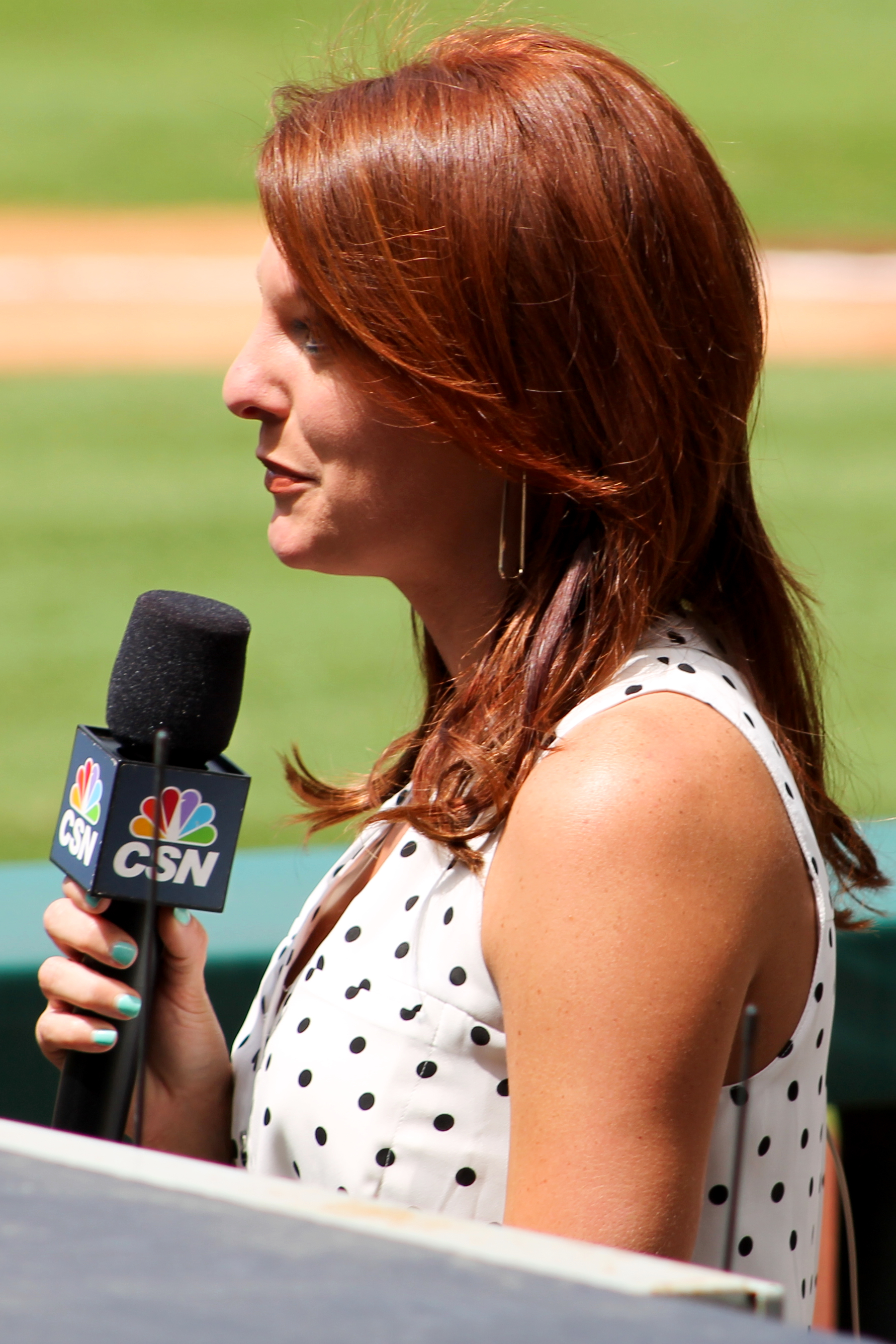 Julia Morales of Comcast SportsNet Houston at an Astros preseason game in March 2014.